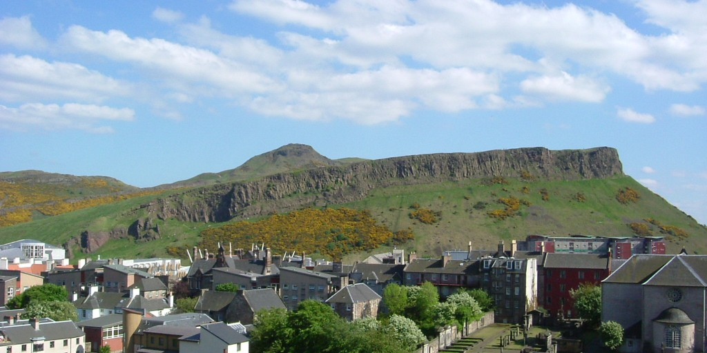 Salisbury Crags in Edinburgh seen from the North. The peak of Arthur's Seat can be seen in the distance